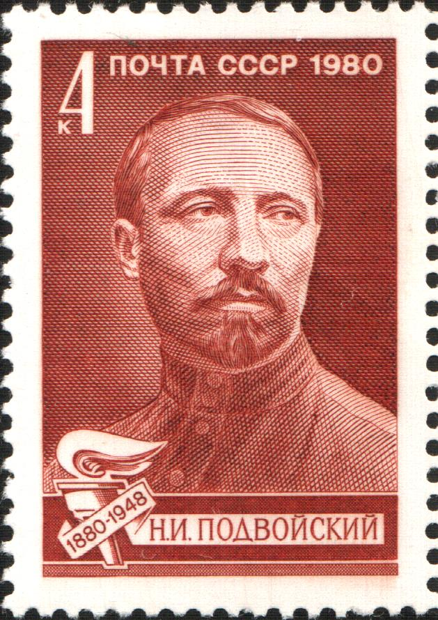 USSR Post